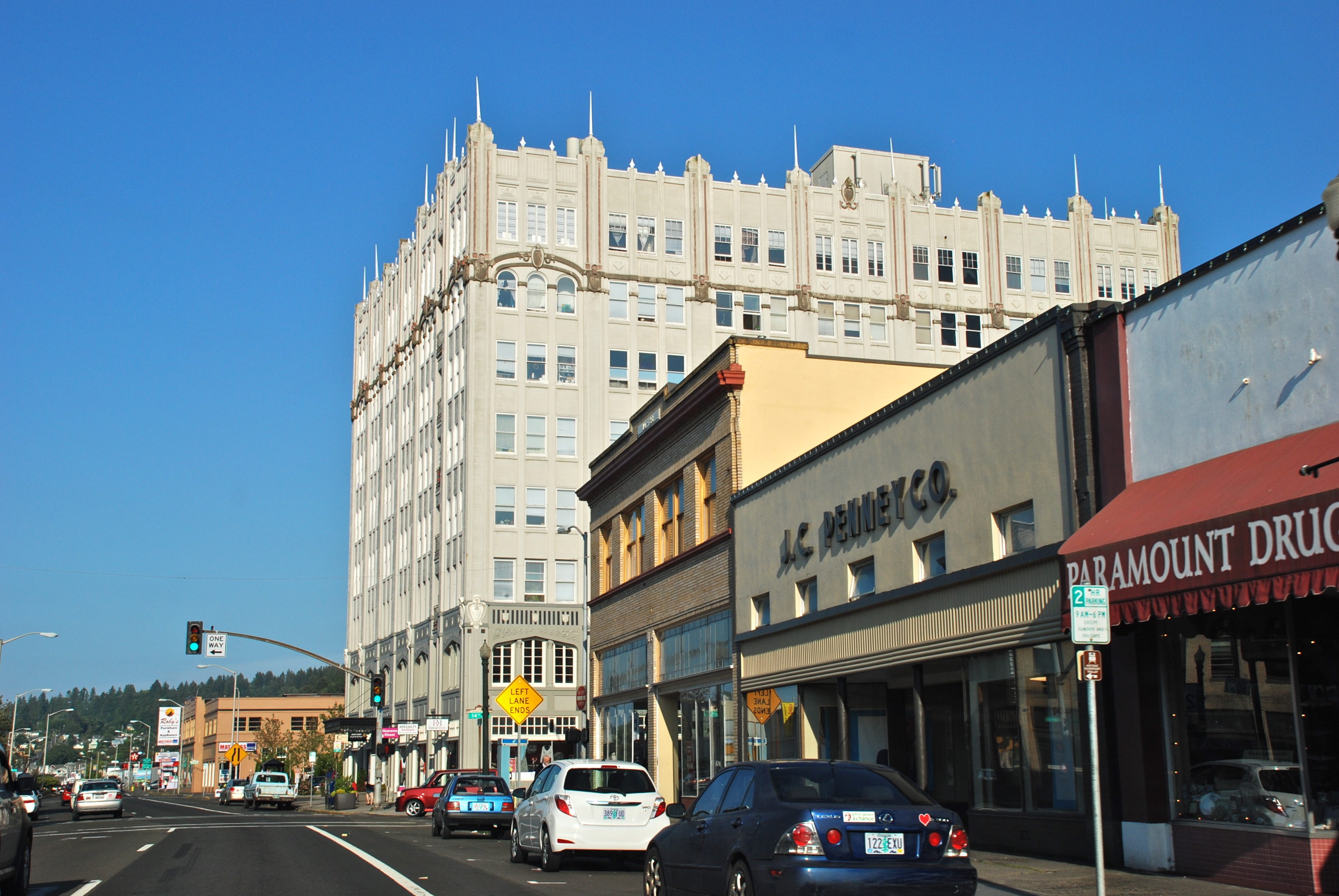 Looking east on Commercial Street between 12th and 14th Streets in downtown Astoria, Oregon. This is within the large Astoria Downtown Historic District, listed on the National Register of Historic Places (NRHP). Towering in the background is the former Hotel Astoria, which opened in 1924, was renamed the John Jacob Astor Hotel in 1951, and closed in 1968. That building, which is also listed on the NRHP, sat vacant or mostly vacant for many years, but in the 1980s it was finally renovated and it reopened as an apartment building in 1986. The building is L-shaped, not square, and this view of the northwest corner shows its two long sides, whereas its south and east sides are less than half as wide.